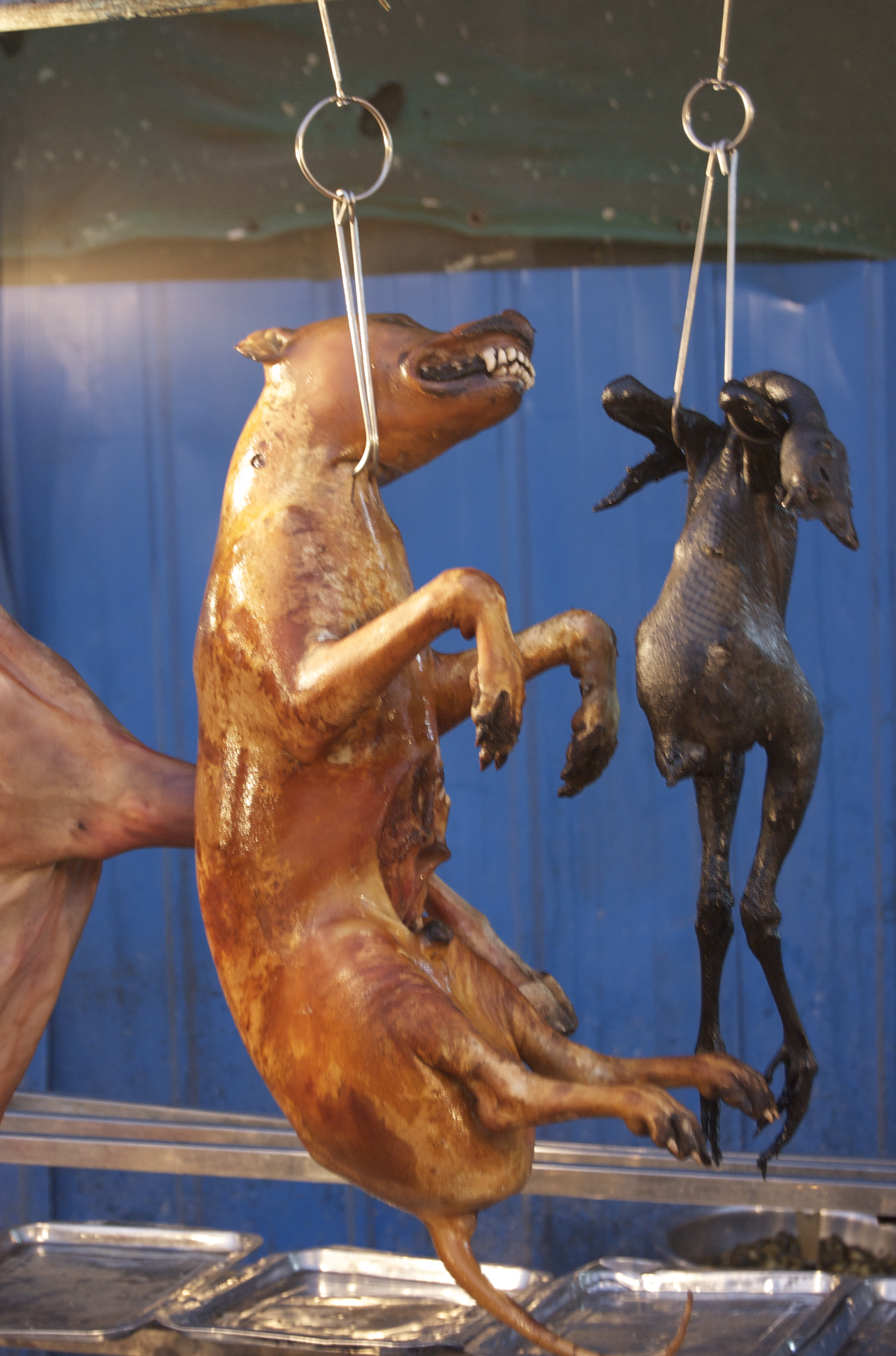 in China